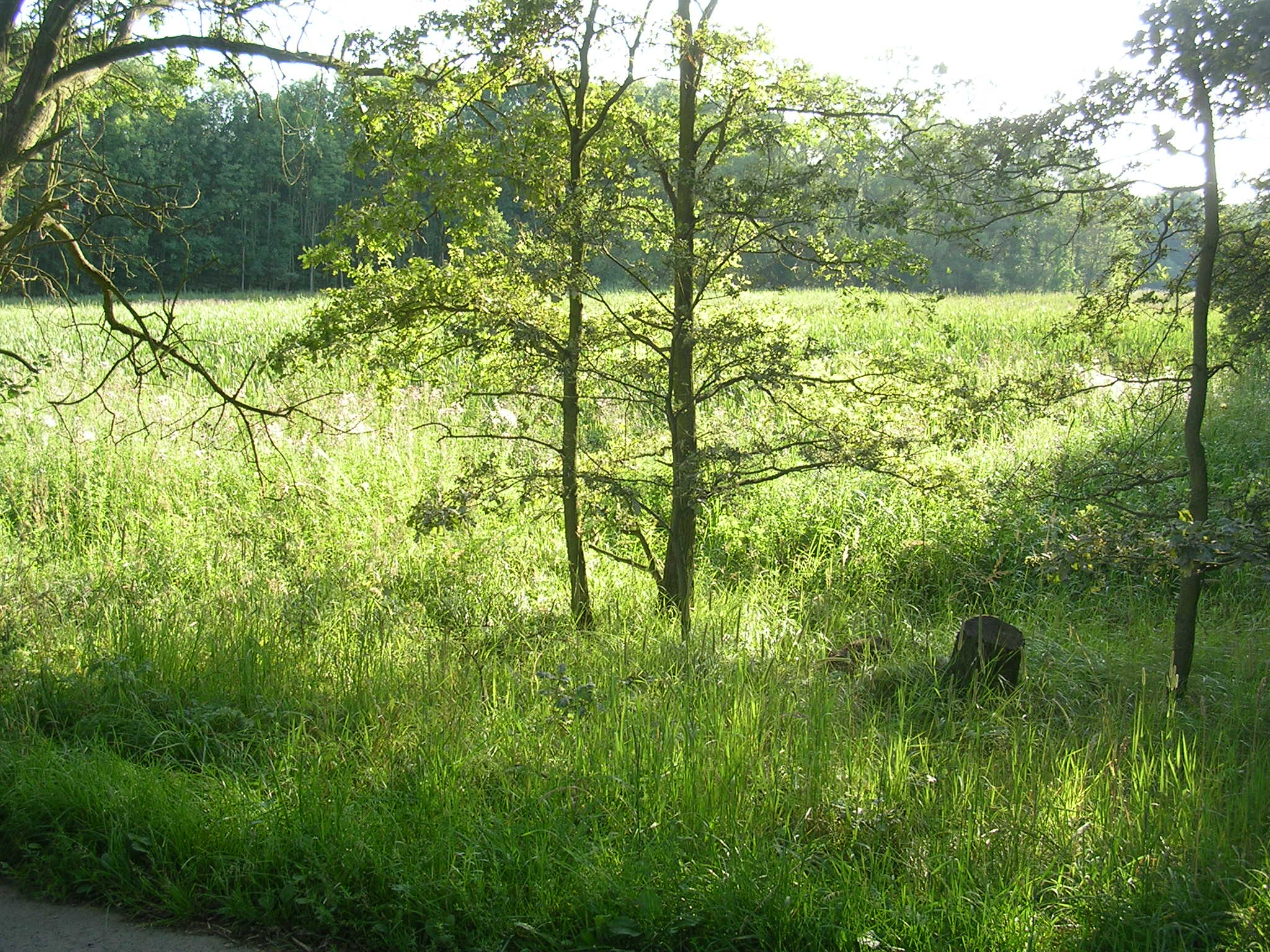 Dublovice, Příbram District, Central Bohemian Region, the Czech Republic. Nature reserve of Jezero (The Lake). - Google Maps - Google Earth